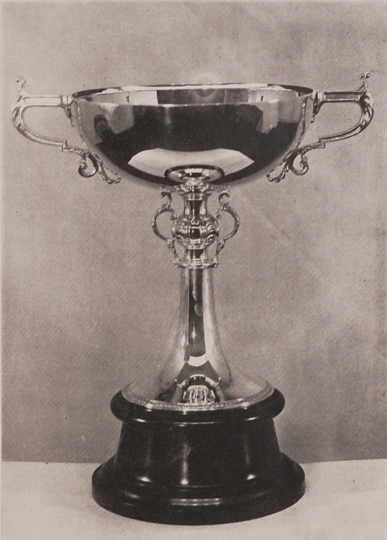 The Copa de Confraternidad Escobar-Gerona trophy, played by runner-up teams of Argentina and Uruguay football leagues.